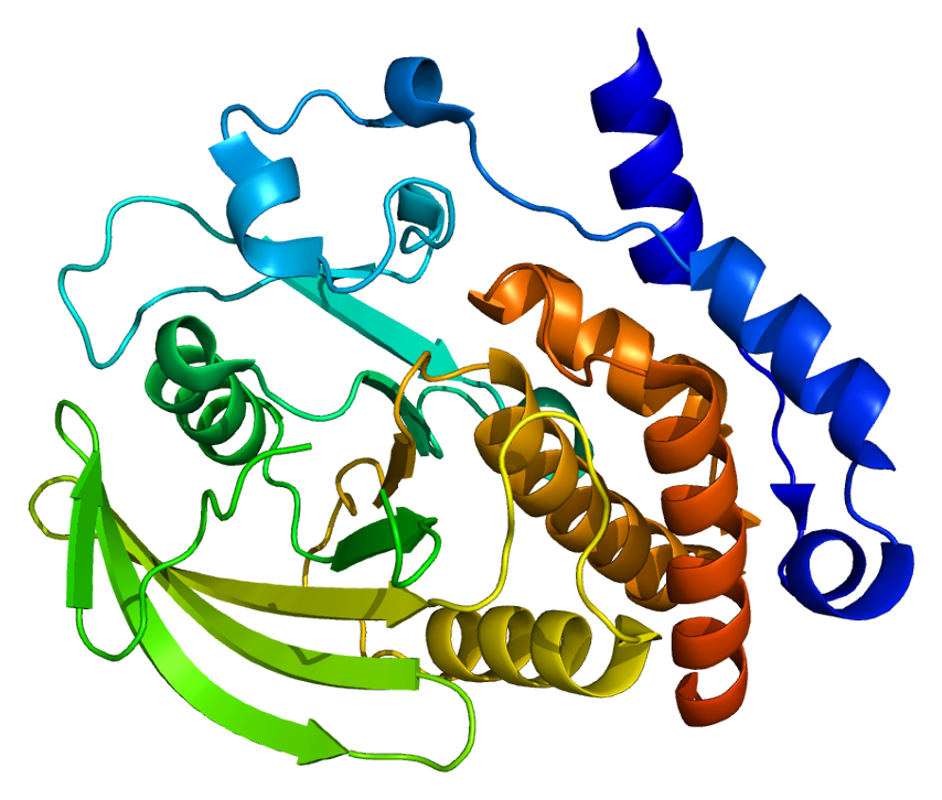 Structure of the PTPN7 protein. Based on PyMOL rendering of PDB 1zc0.